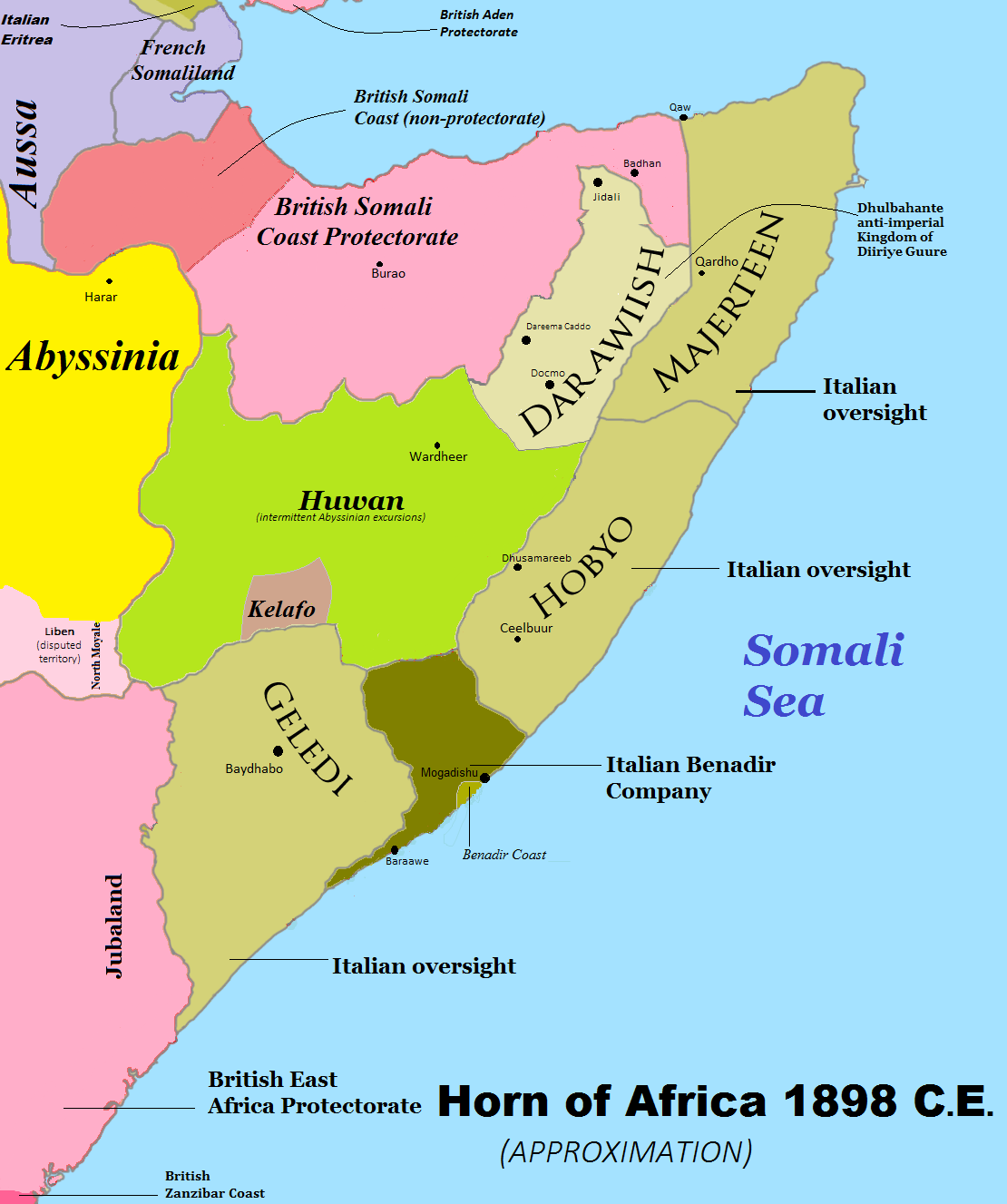 Horn of Africa 1898